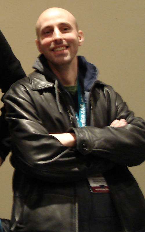 Noted award winning comic book writer Brian K. Vaughan at the 2007 New York Comic-Con. Copyright 2007 Jeffrey O. Gustafson - released under the GFDL and CC-BY-SA-2.0. Cropped from Image:Smith JMS BKV.jpg, also copyright Jeffrey O. Gustafson under GFDL/CC-BY-SA-2.0.